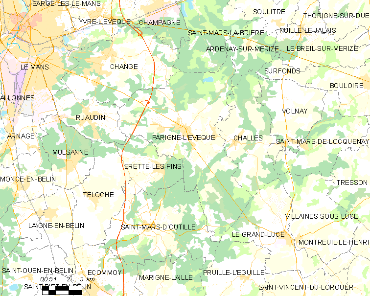 Map of French municipality